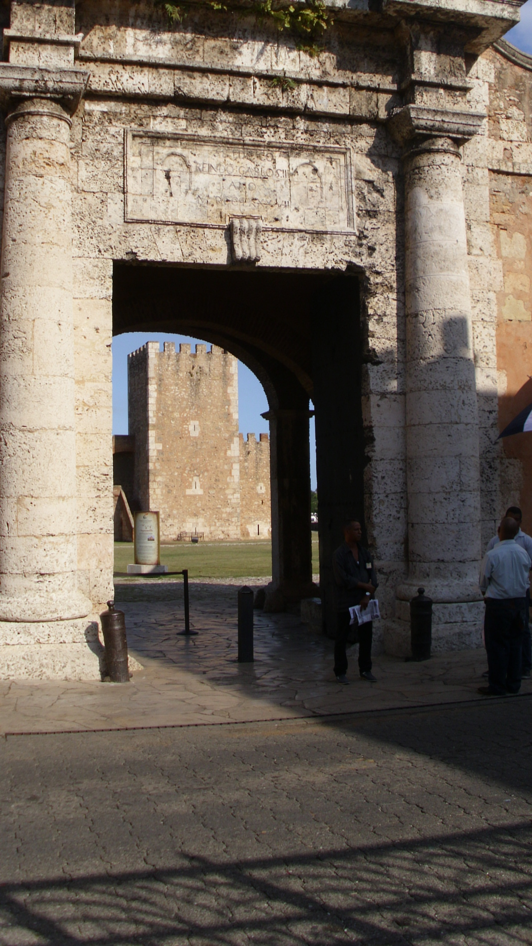 Carlos III Gate (1878), main entrance to the courtyard of Fort Ozama, Colonial Zone, Calle Las Damas, Santo Domingo, Dominican Republic